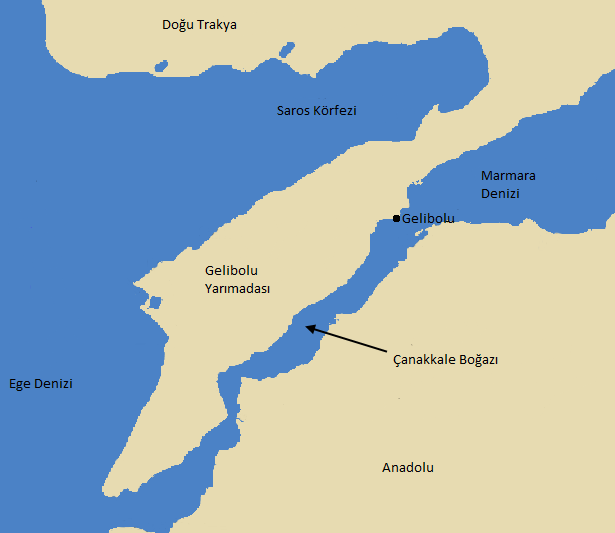 Map of The Dardanelles, Gallipoli Peninsula and Gulf of Saros